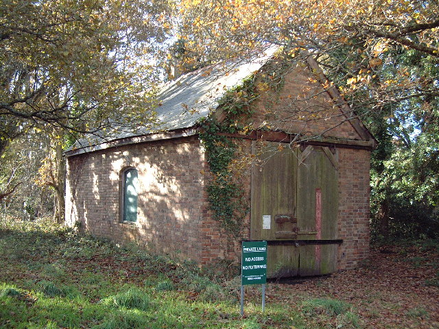 The engine shed of the former Furzebrook Railway at Ridge in Dorset. The line passed just to the left of the building, and was used for transporting Purbeck Ball Clay from Furzebrook to a wharf on the River Frome at Ridge. For more information see the Wikipedia article Furzebrook Railway.